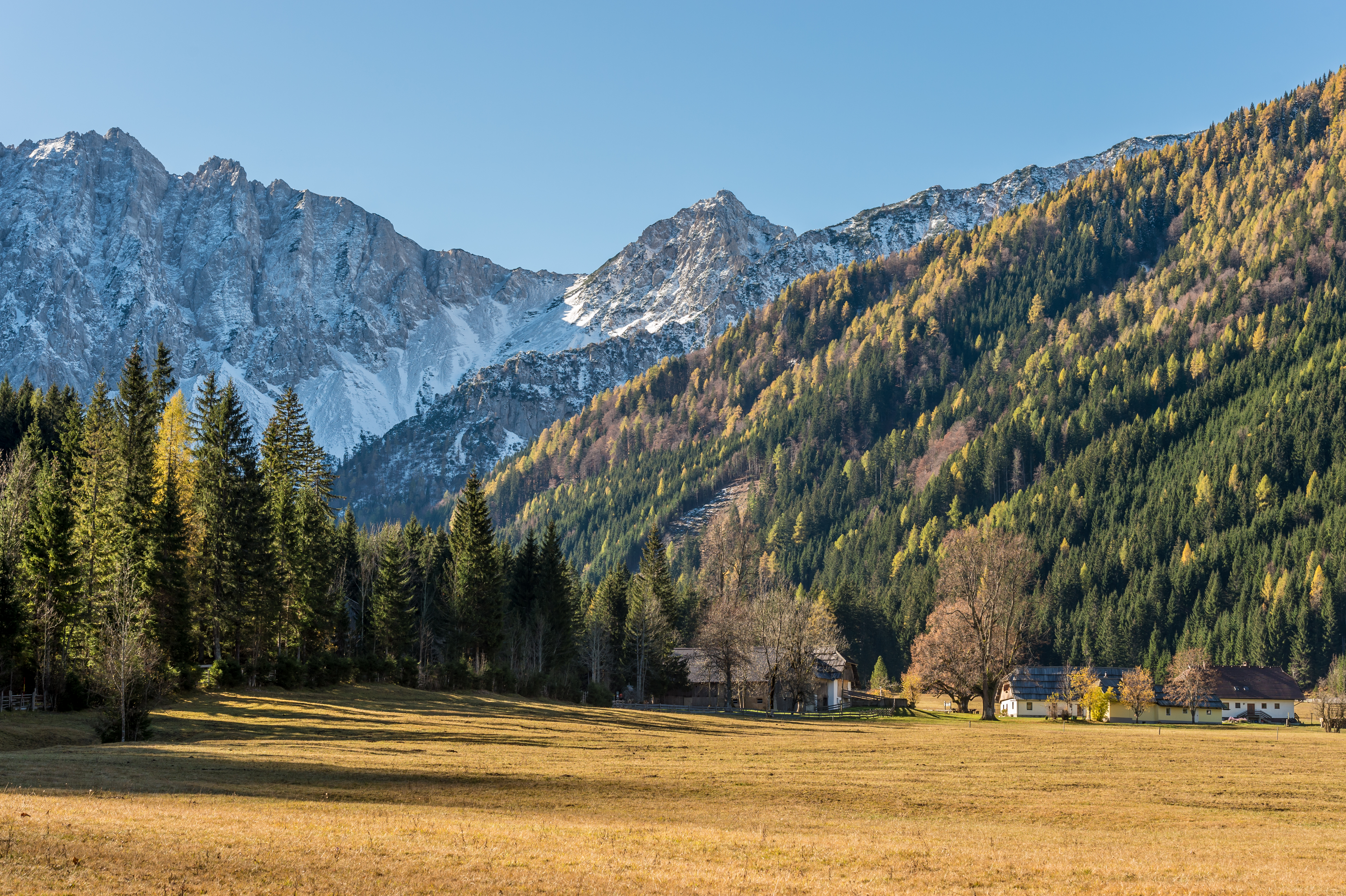 Bodenbauer (slov. Podnar) in Bodental slov. Poden, a side valley of the Loibl valley in the Karawanks (with the Vertatscha in the background), municipality Ferlach, district Klagenfurt Land, Carinthia, Austria, EU